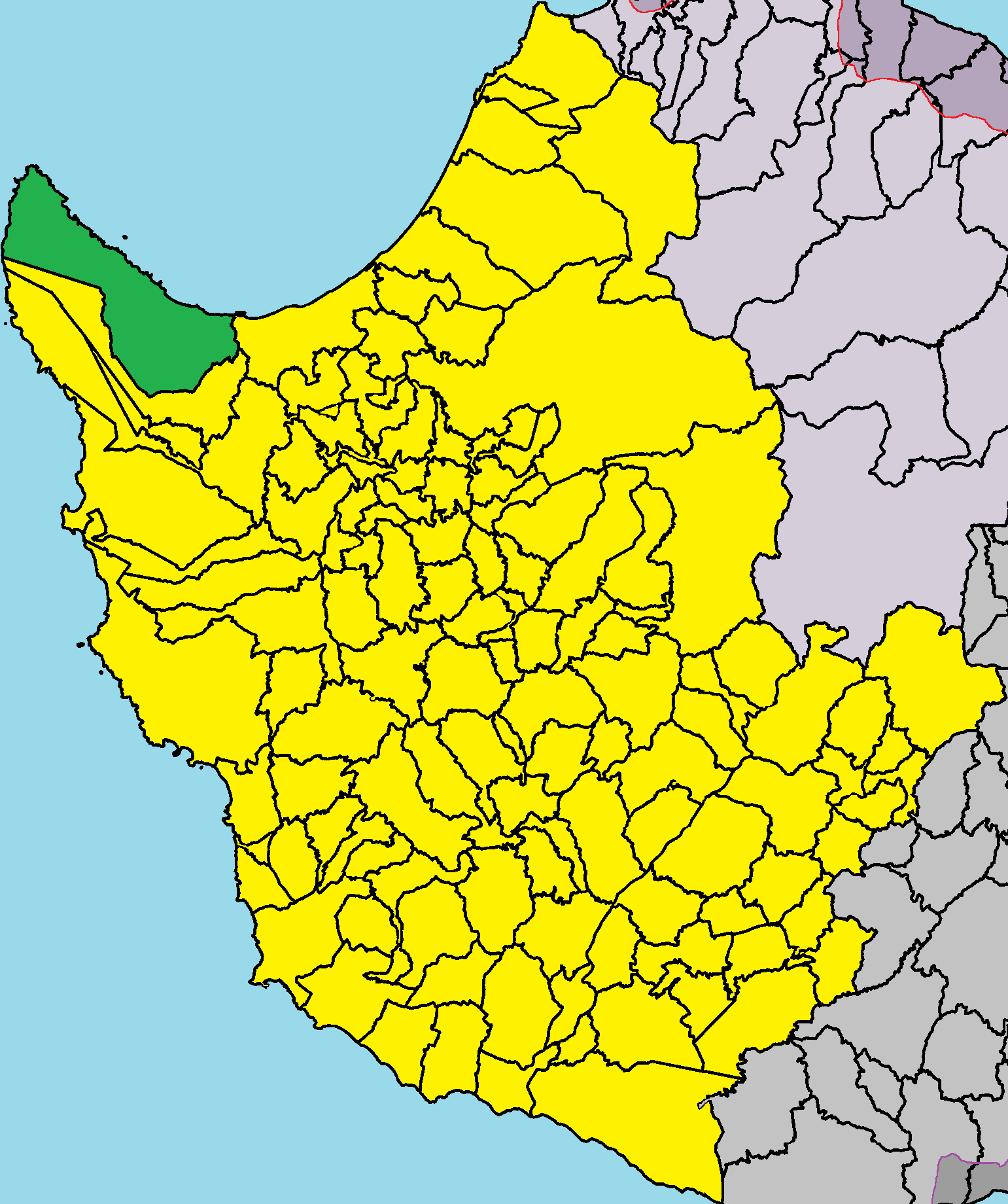 Neo Chorio, Paphos in Paphos District.